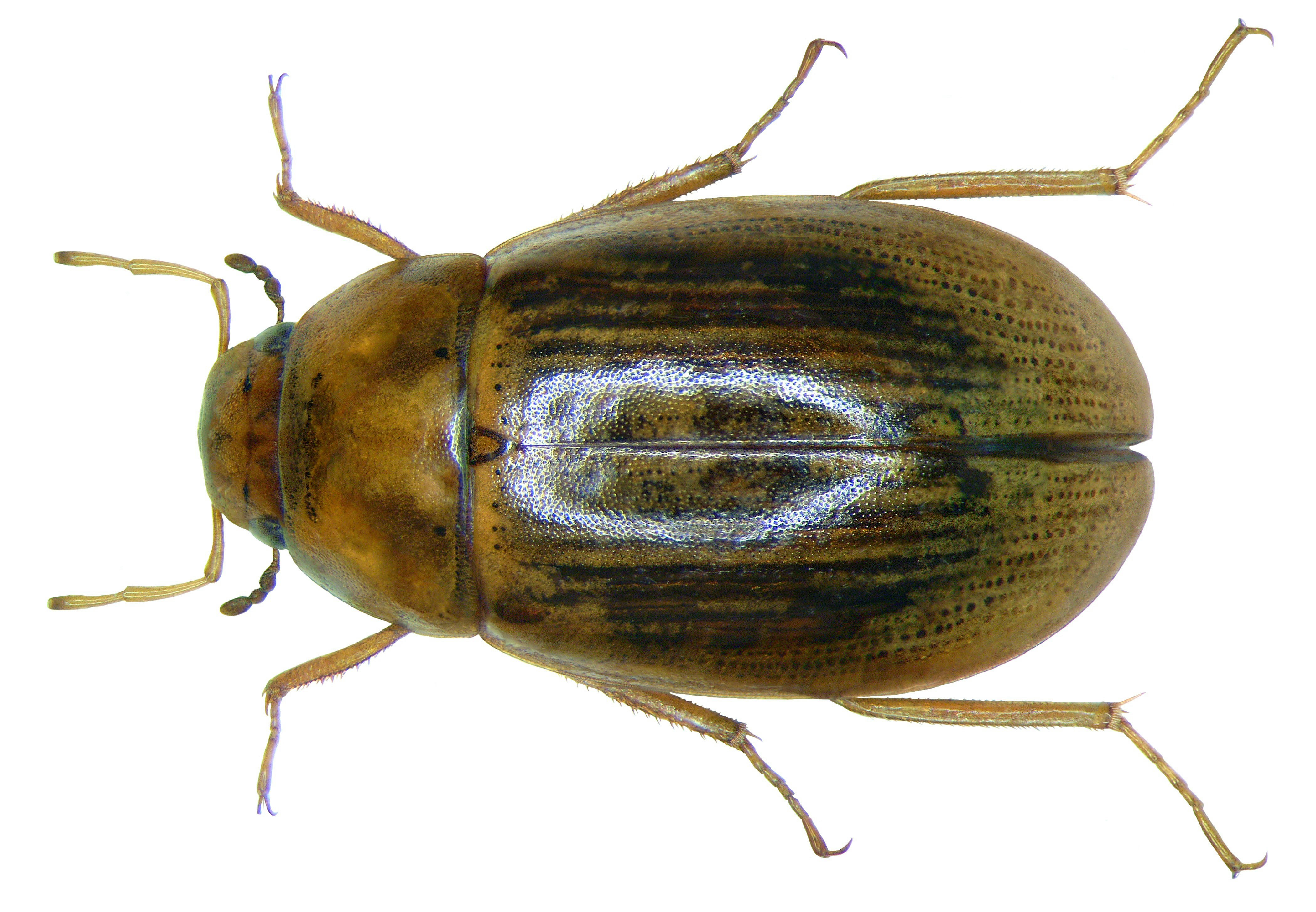 Helochares lividus, a Hydrophilid beetle Familie: Hydrophilidae Grösse: 4-6 mm Verbreitung: Europa Ökologie: Wasserbewohner Fundort: Germania, Oberfranken, Kulmbach leg.det. U.Schmidt, 1993 Foto: U.Schmidt, 2008